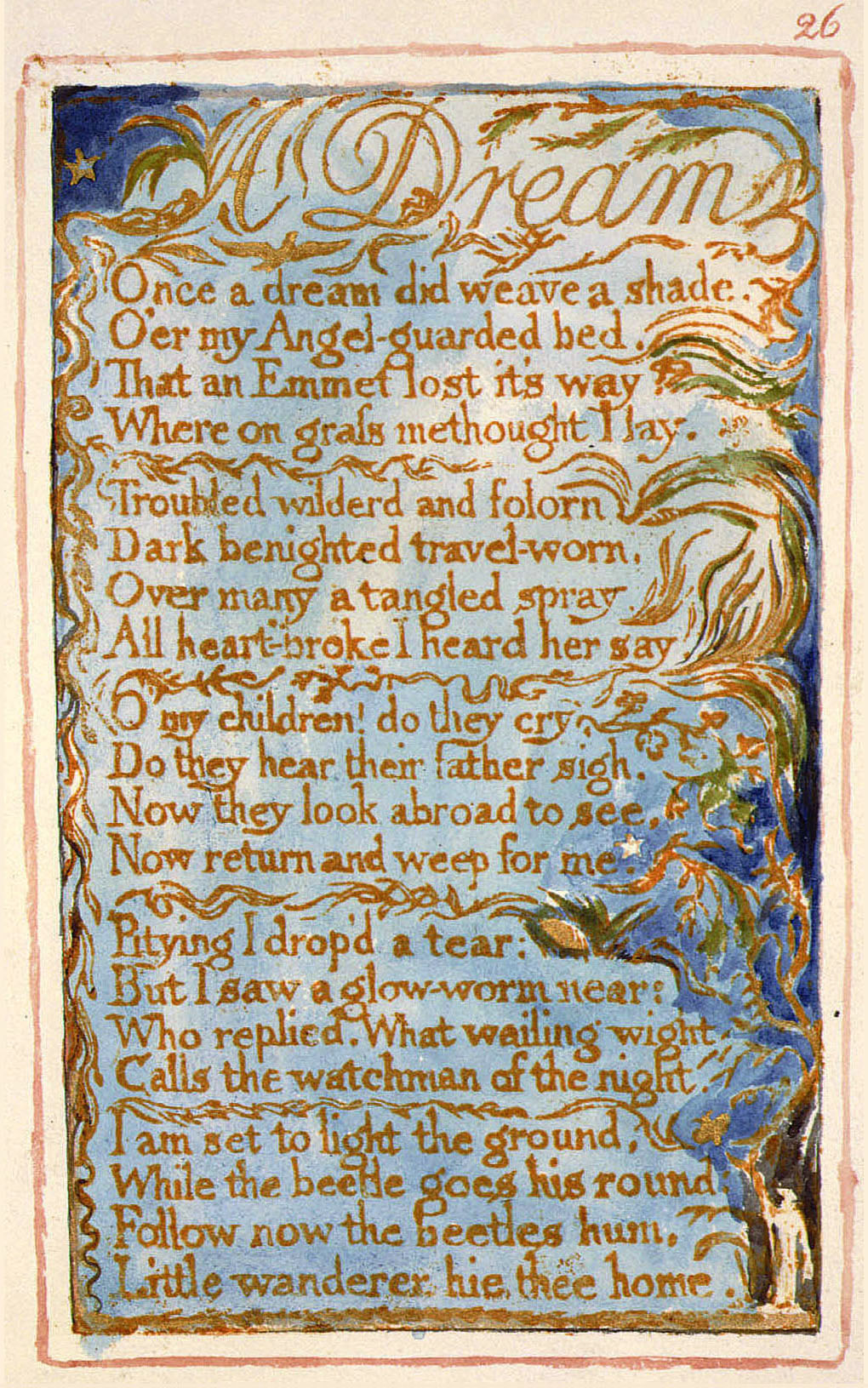 Songs of Innocence and of Experience, copy AA, 1826 (The Fitzwilliam Museum) object 26 Dream